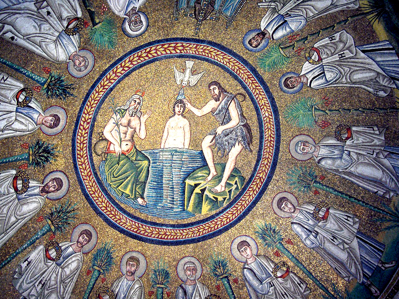 Dome depicting the baptism of Jesus by Saint John the Baptist, and the Devil with the horns as an old man stands on the left side, holding a leather bag; Arian baptistry, Ravenna, Italy. Similar picture of the Devil has been shown in midrash Tanchuma Circa 1900. Today. Today.